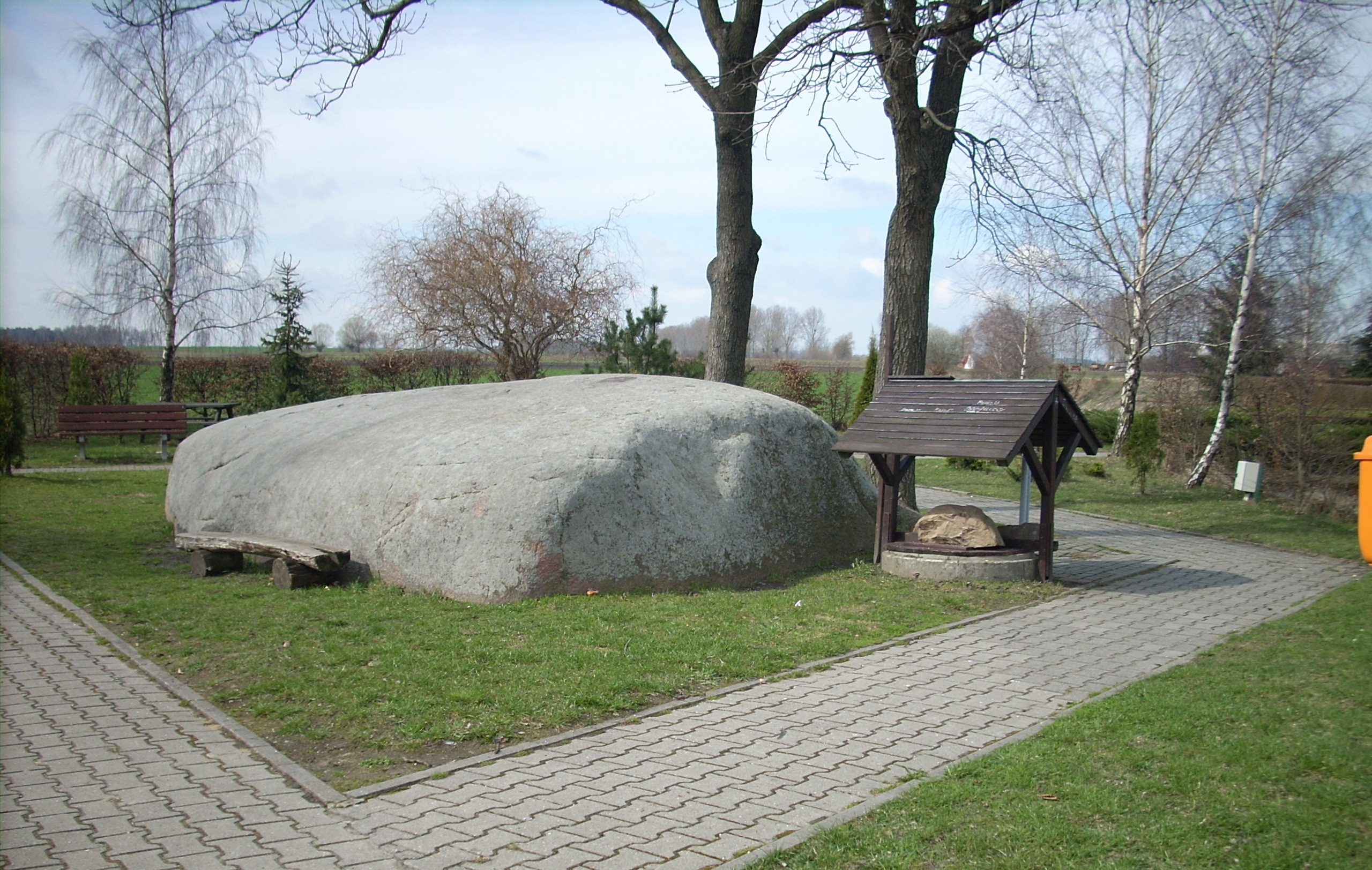 St. Adalbert stone in Budziejewko